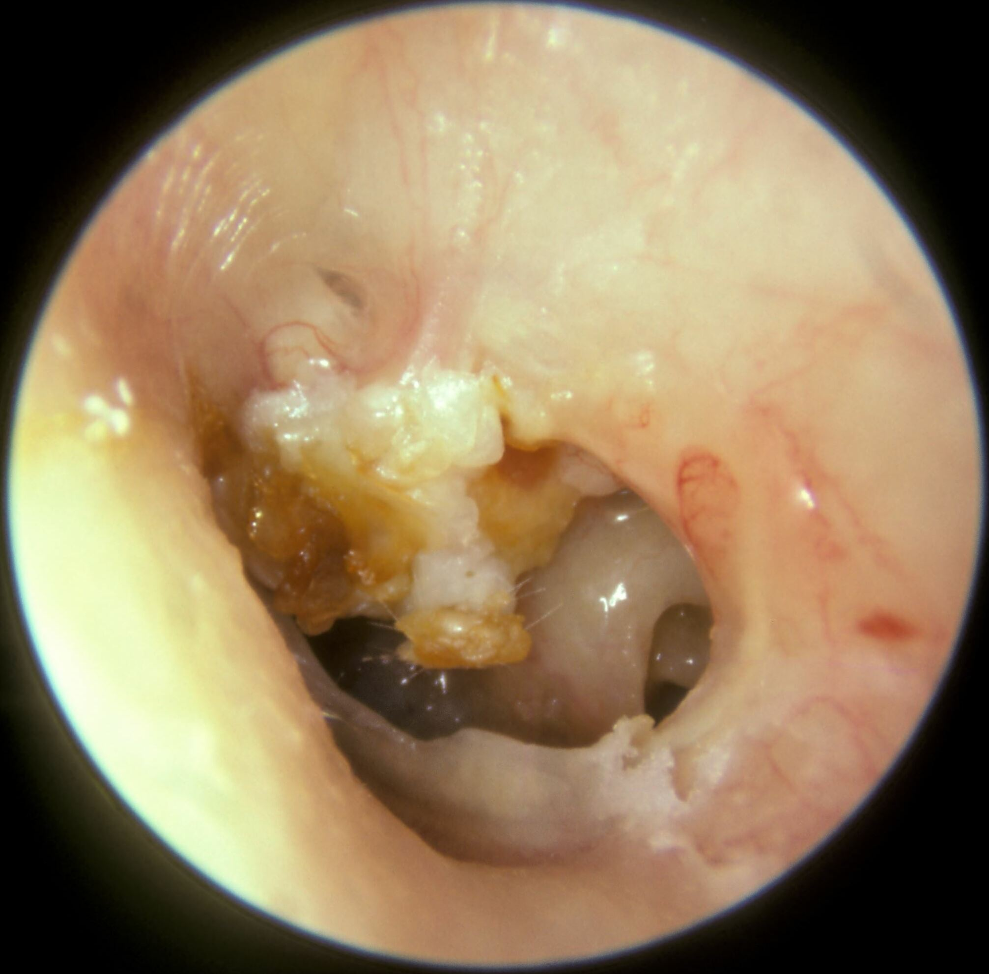 The large mass of white keratin debris in the left upper quadrant of this left tympanic membrane is a cholesteatoma. The majority of the tympanic membrane is missing [perforation]. In the lower right quadrant the round window niche on the medial wall middleware can be seen.